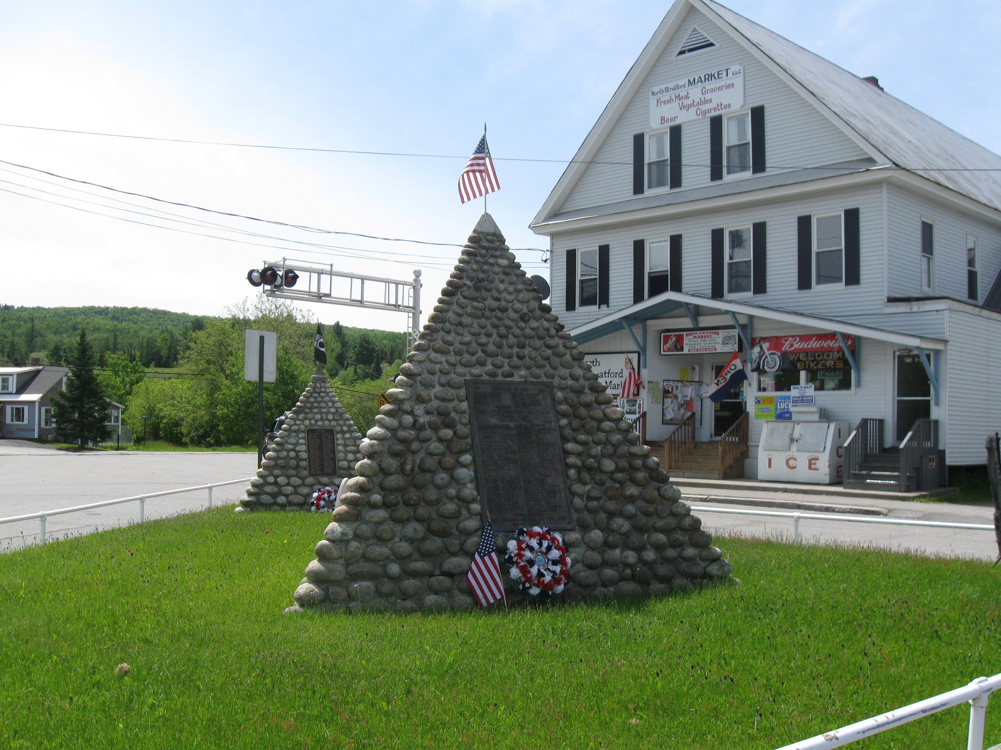 War memorial in North Stratford village.